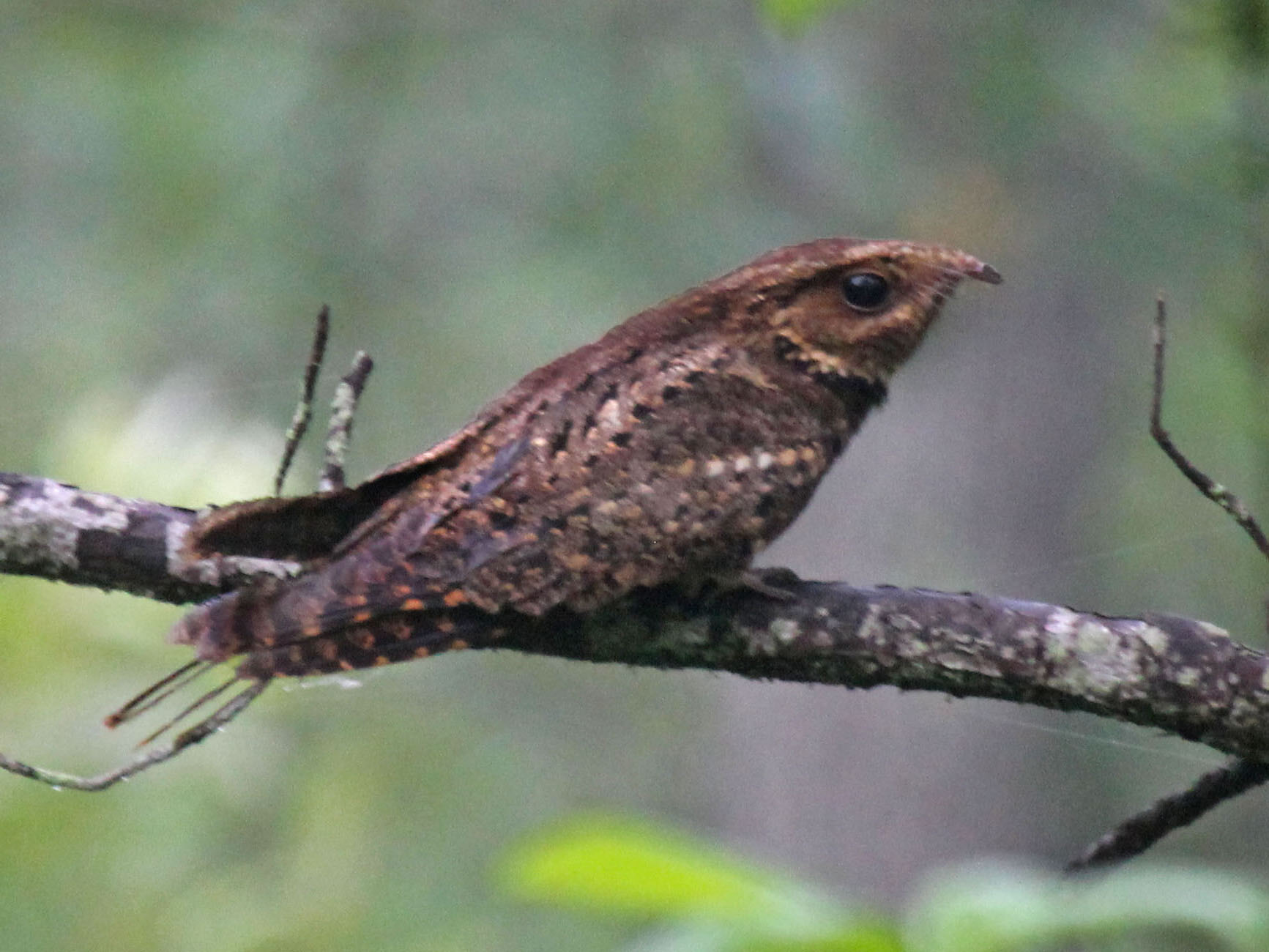 Female Chuck-will's-widow (Caprimulgus carolinensis) in Exum, North Carolina. Chuck-will's-widows often choose low open branches for perching.